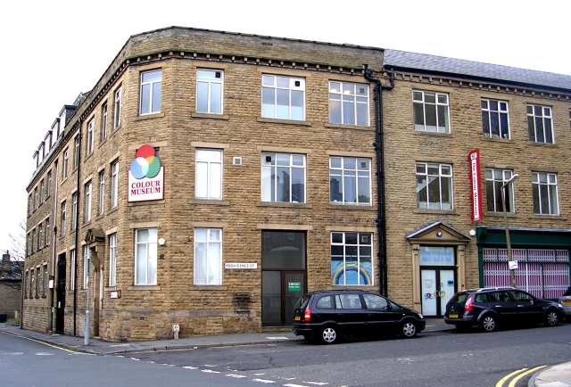 Colour Museum - Providence Street